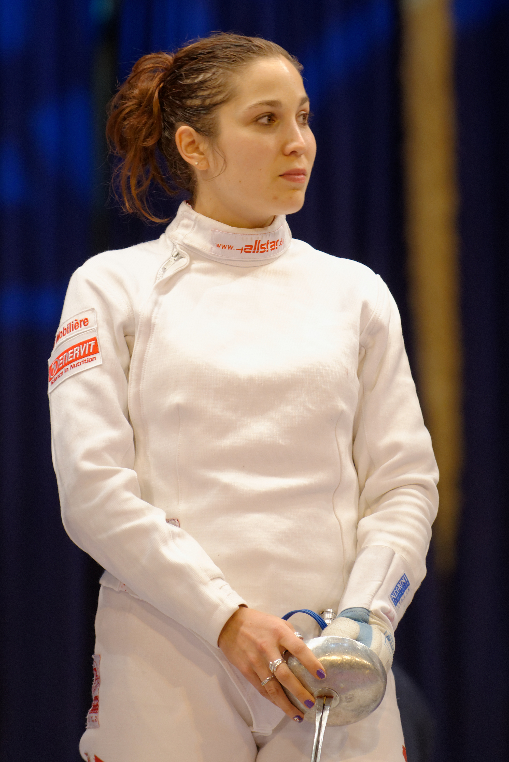 Tiffany Géroudet at the Challenge international de Saint-Maur 2013, women's épée World Cup tournament.